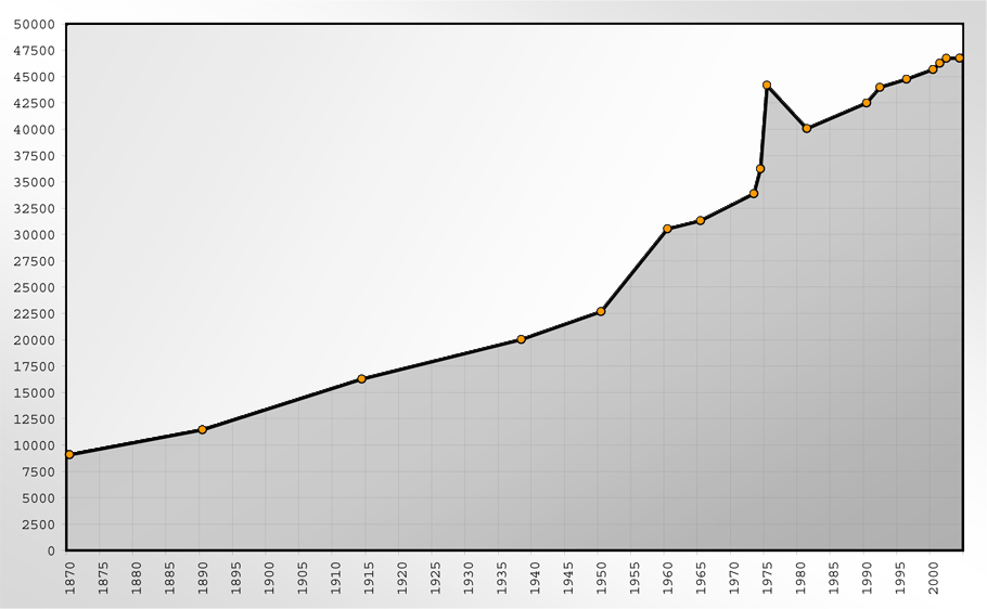 This image shows the population statistics of Lörrach (Germany).